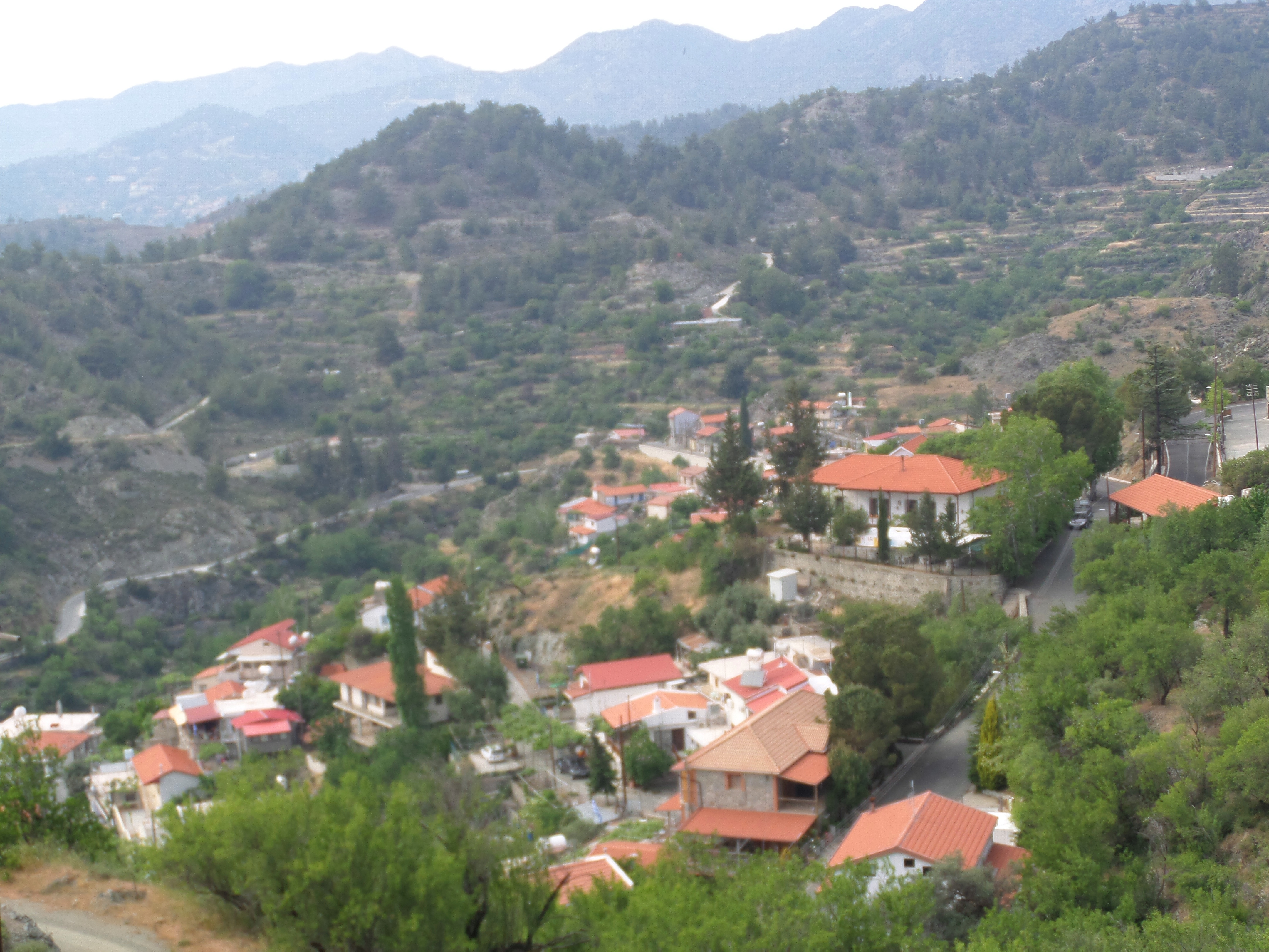 View of Agios Theodoros, Limassol.